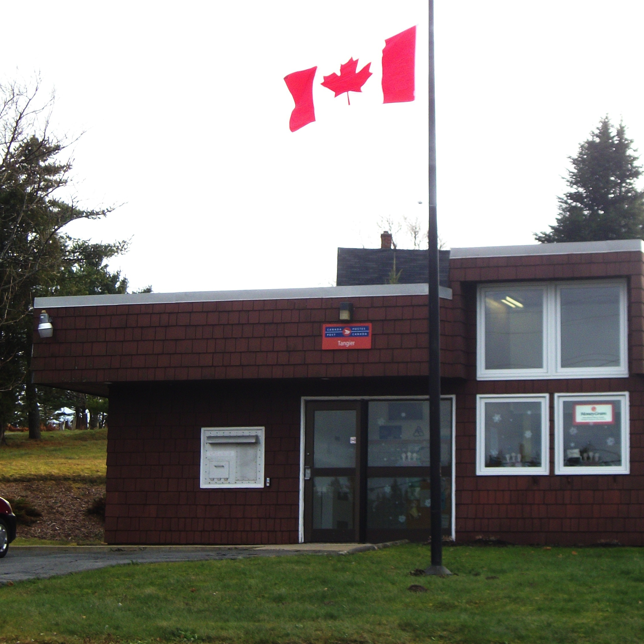 Federal post office in Tangier, Halifax County, Nova Scotia